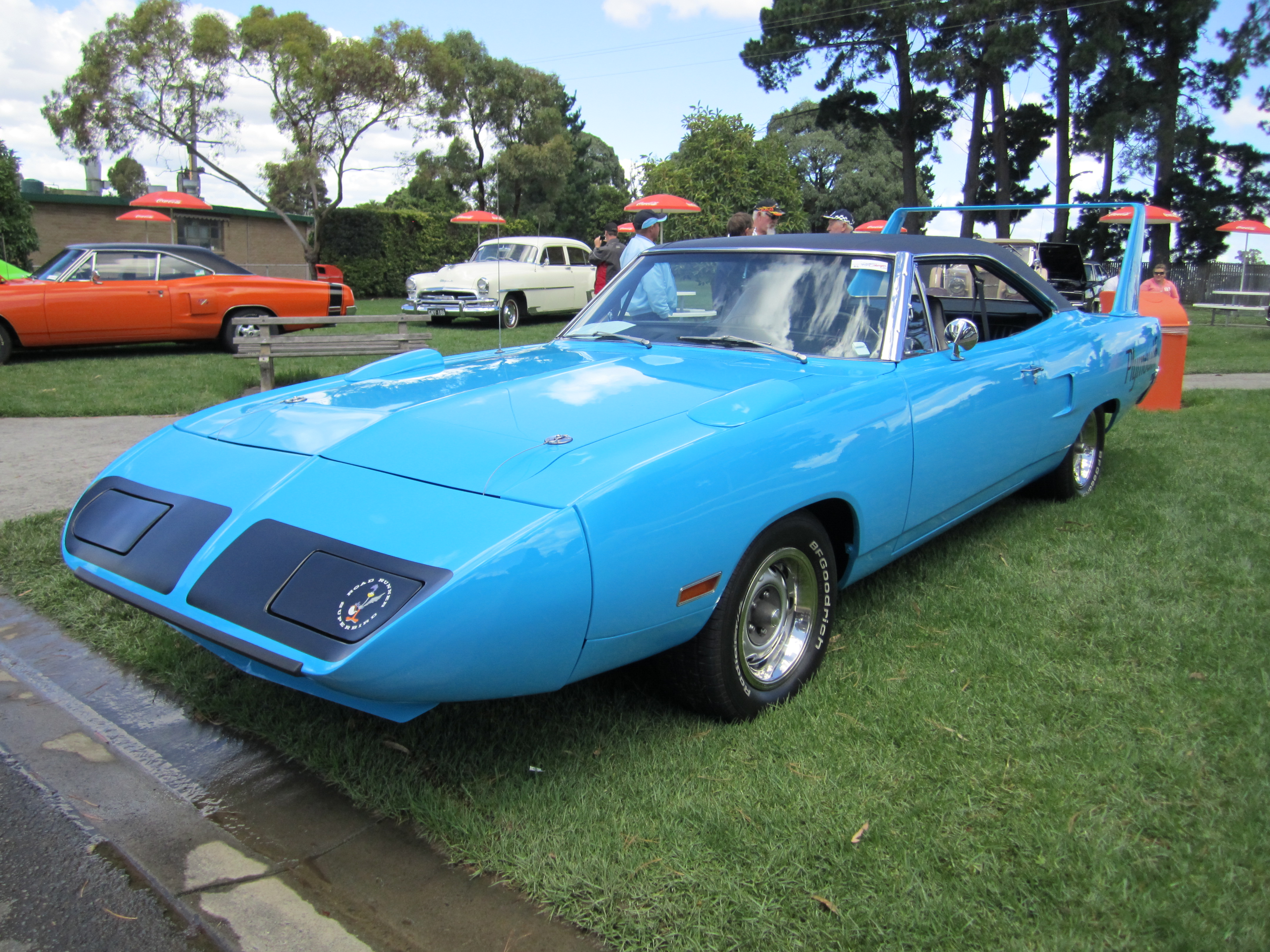 The Superbird was designed for NASCA racing with 19inch nose & 3ft high rear wing. 1920 made (93 Hemis). Engines; 440 or 426 Hemi